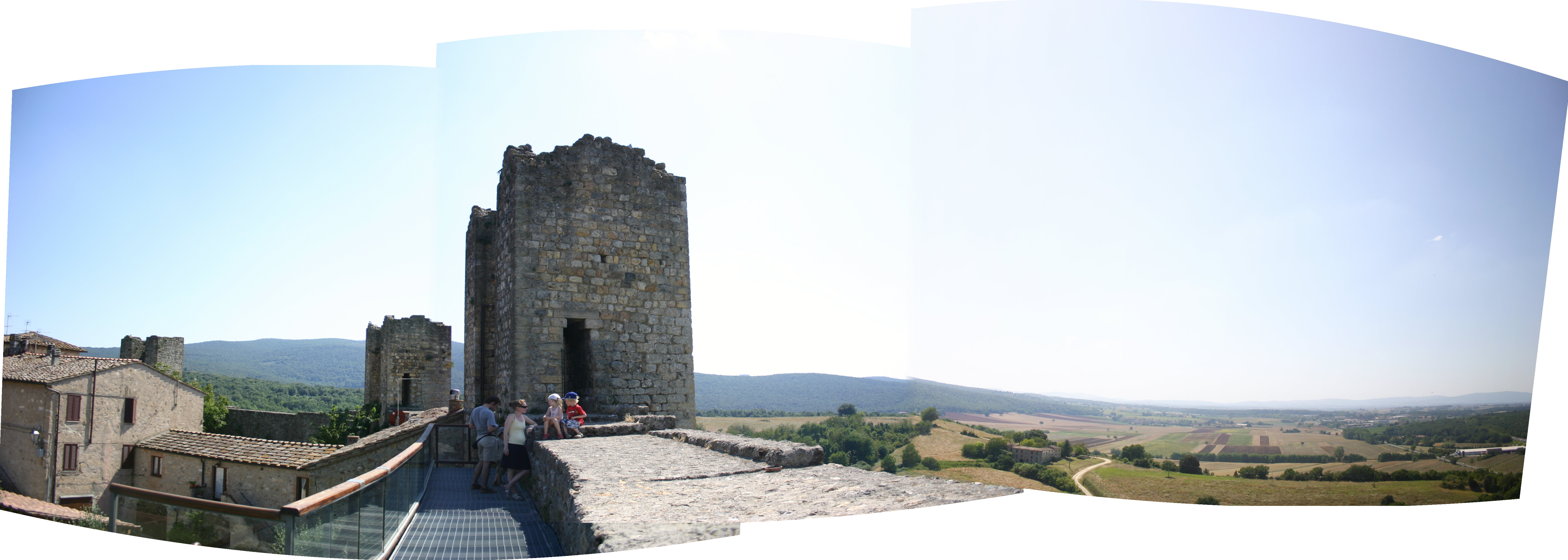 Panoramic view from the Monteriggioni city wall.